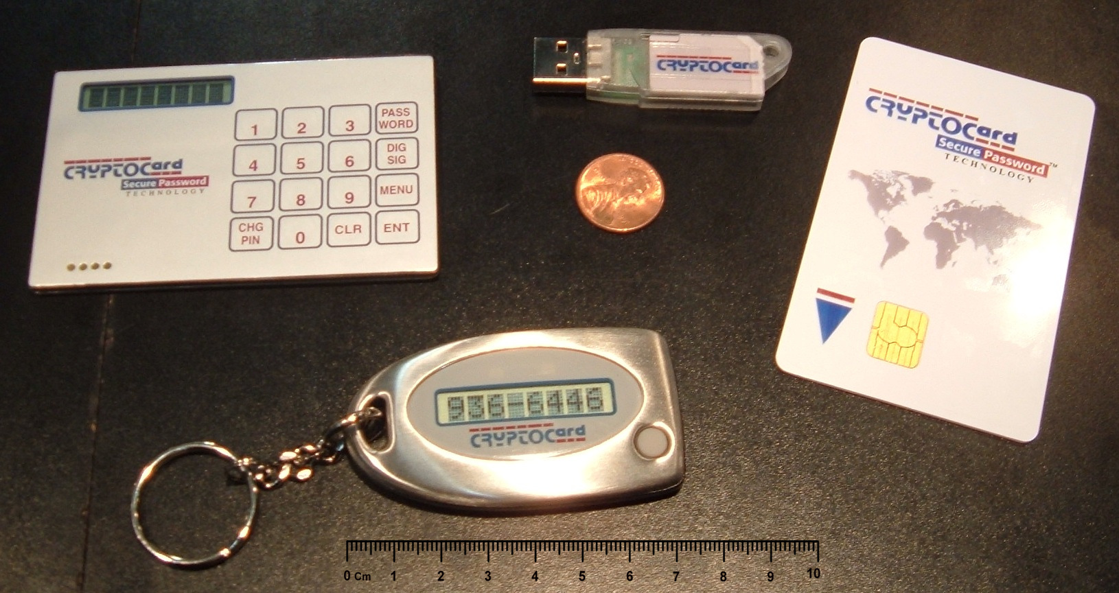 Several security tokens with a U.S. penny coin for comparison. Left: Calculator-style card allows secure entry of a Personal Identification Number (PIN). Top: USB token. Right: Smart card format Bottom: Key chain fob with onetime passcode displayed.